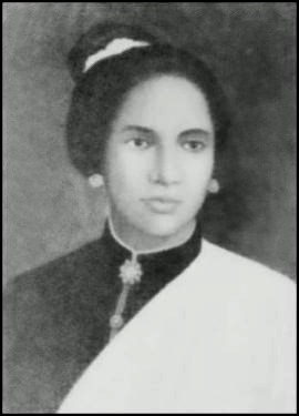 A headshot of Acehnese freedom fighter Cut Nyak Dhien (also spelled Tjoet Nya' Dhien)